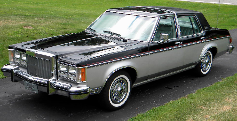 Lincoln Versailles, 1980 (final model year)